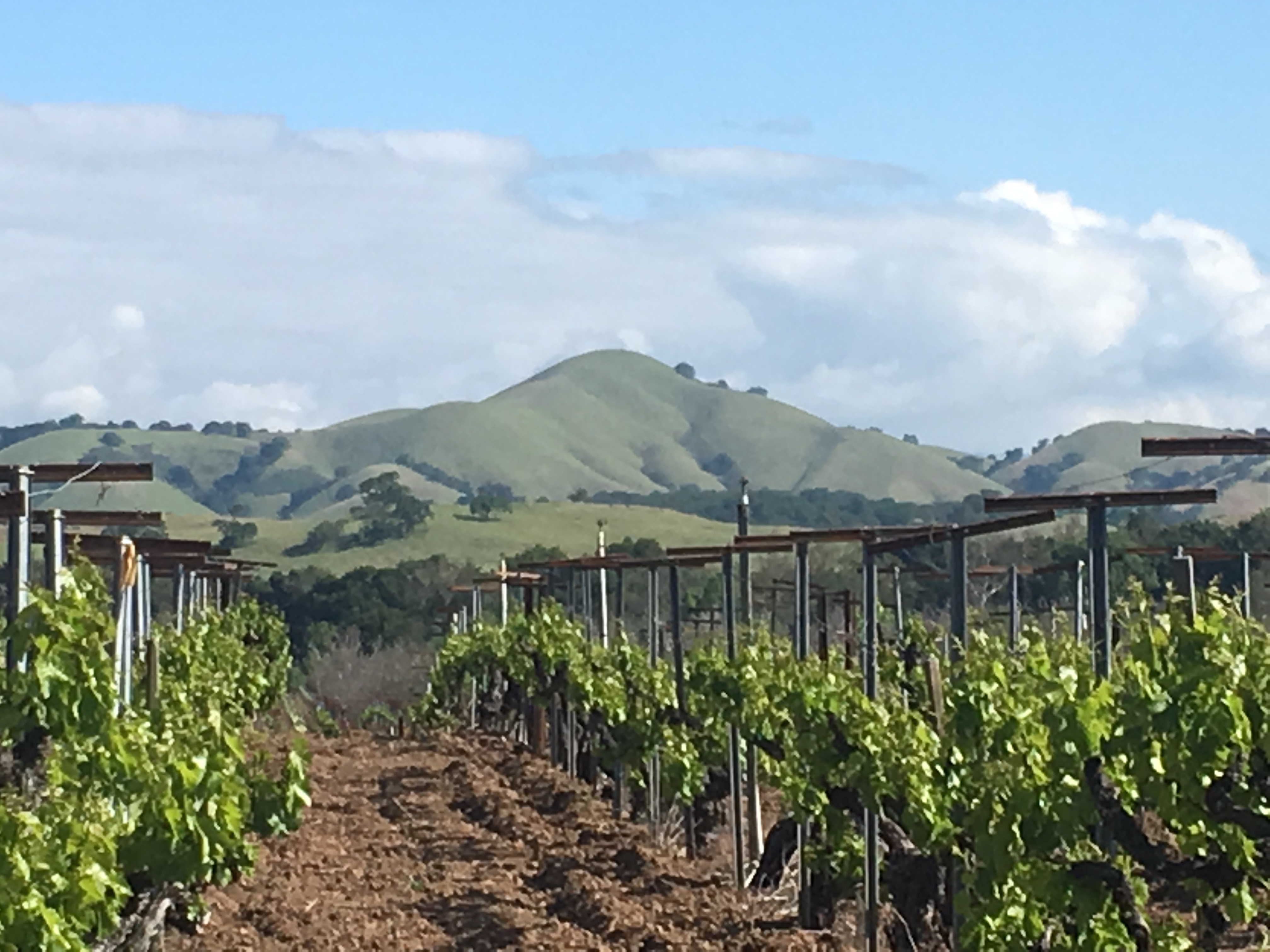 View of Lions Peak along Hecker Pass Hwy, near Gilroy CA, April 2018